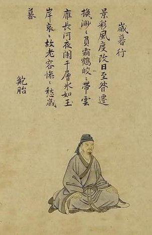 Chinese poet Bao Zhao (414-466) of the Northern and Southern Dynasties.